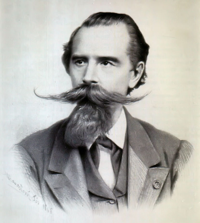 Hungarian and Italian patriot, general